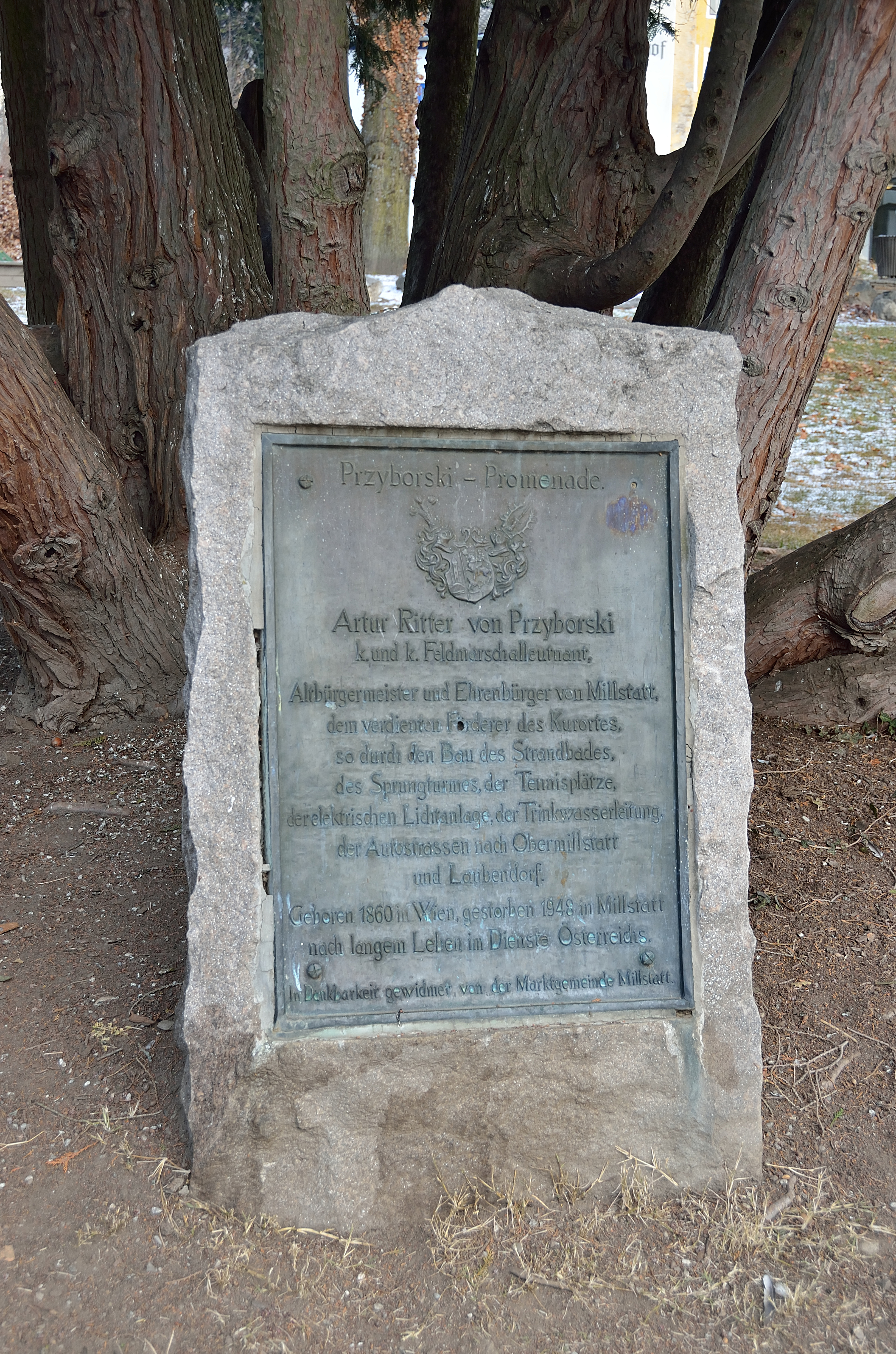 Gedenktafel für den Altbürgermeister und Ehrenbürger von Millstatt, Artur Ritter von Przyborski (1860-1948) an der Przyborski-Promenade oberhalb des Strandbads.